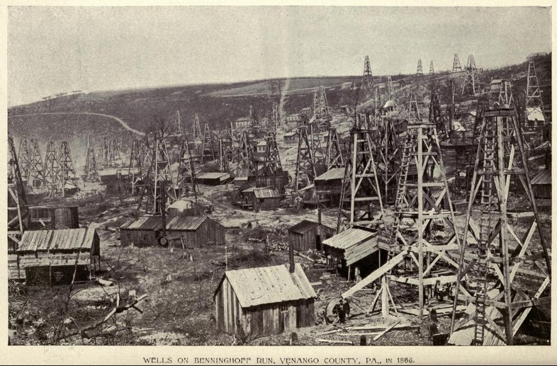 Illustration from the book Sketches in crude-oil; some accidents and incidents of the petroleum development in all parts of the globe, ... 3rd Edition. by McLaurin